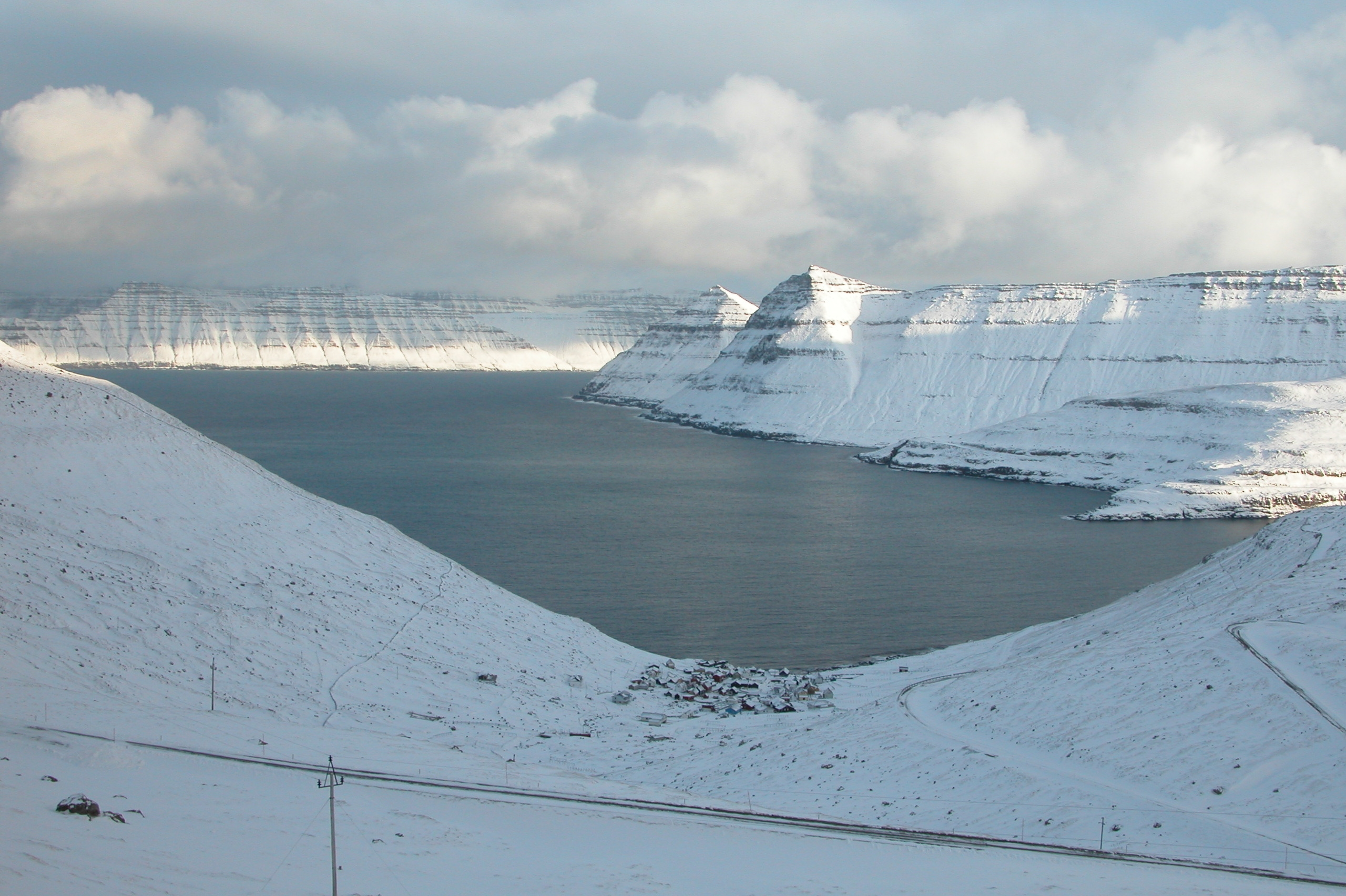 Funningur at the fjord Funningsfjørður, Eysturoy, Faroe Islands. Kalsoy in the background.